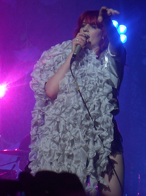 Florence + The Machine, Live at O2 Academy Brixton on 13/12/09.